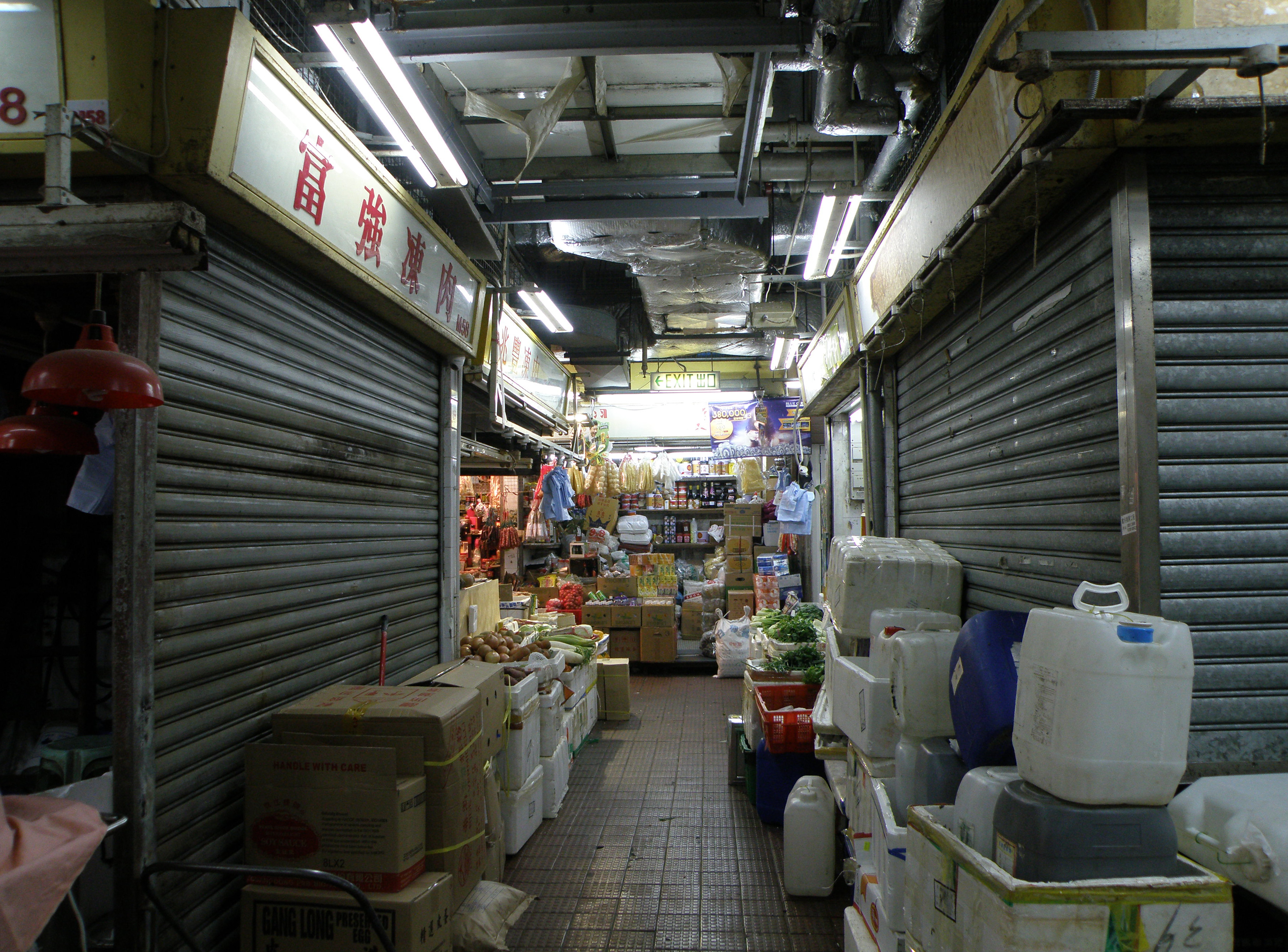 Lung Mun Oasis Market in Tuen Mun, Hong Kong.